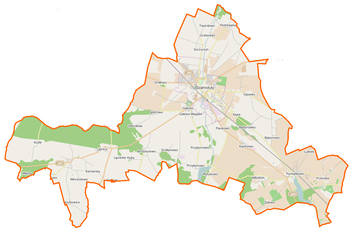 Map of Gmina Szamotuły, Poland This map of Szamotuły (gmina) was created from OpenStreetMap project data, collected by the community. This map may be incomplete, and may contain errors. Don't rely solely on it for navigation. Border coordinates52.670516.3580←↕→16.745852.5143